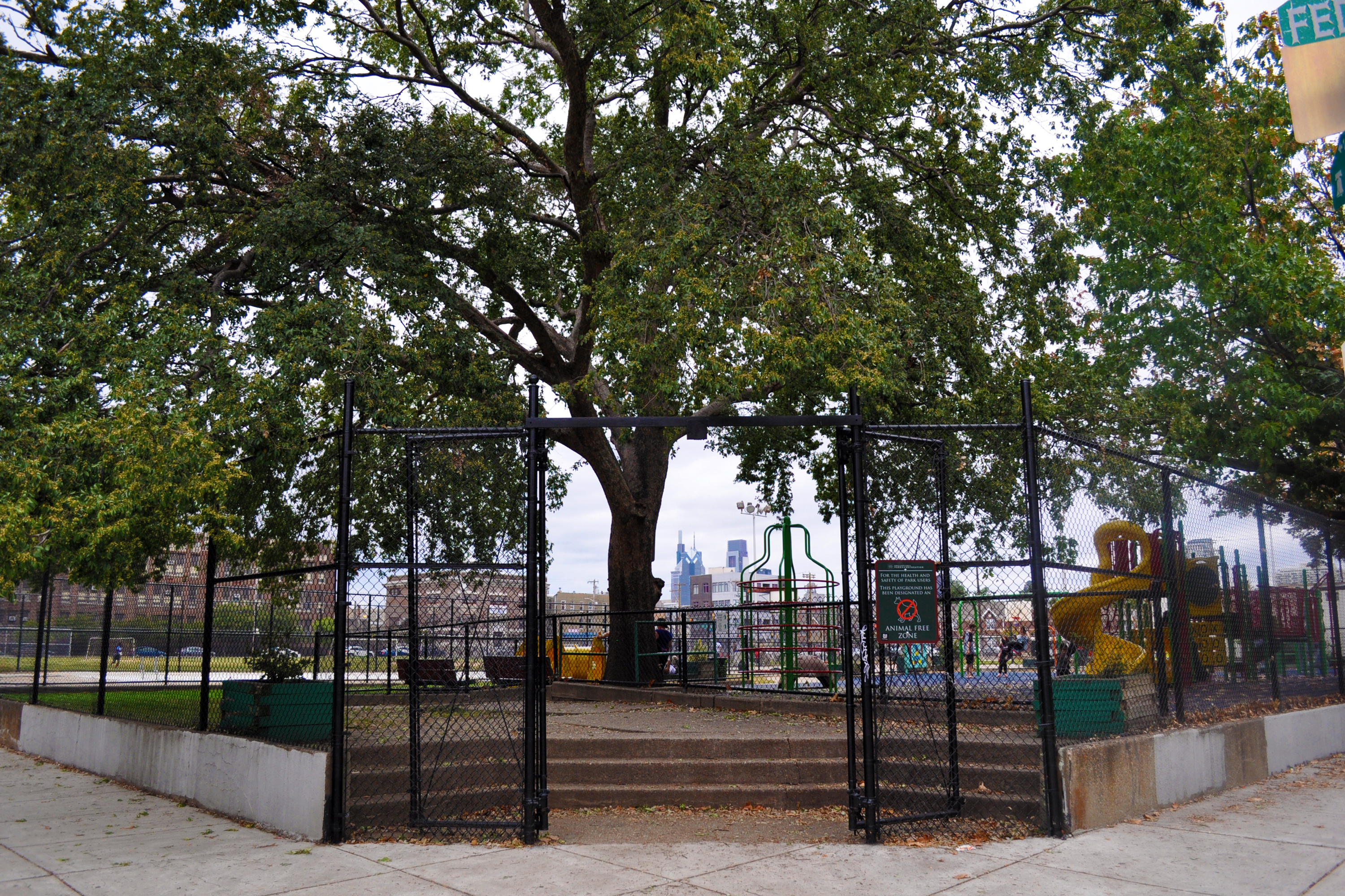 Solomon Sacks Playground 400 Washington Ave Philadelphia PA 19147